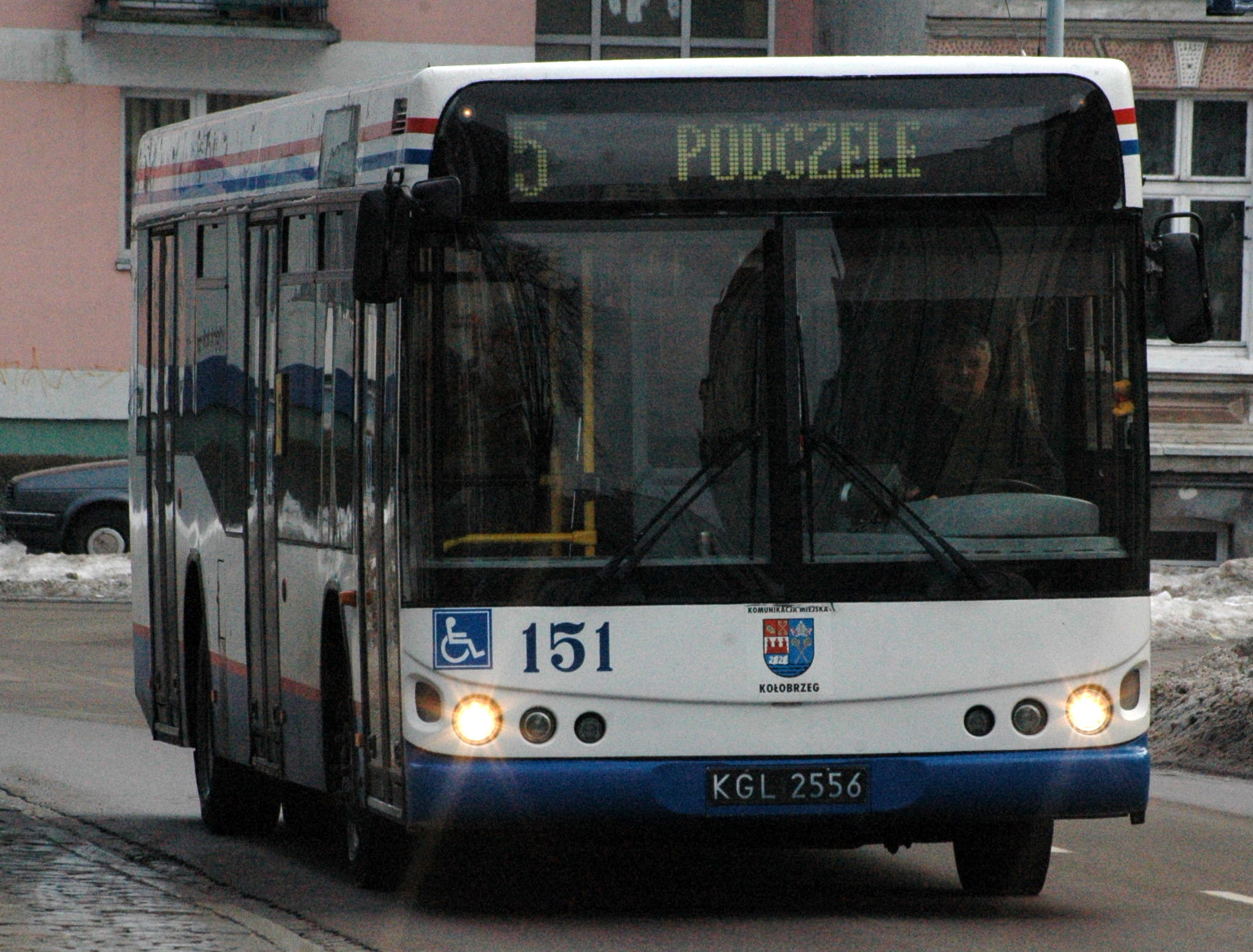 Neoplan K4016TD city bus (#151) in Kołobrzeg, Poland. Built 1999, Komunikacja Miejska w Kołobrzegu operator.